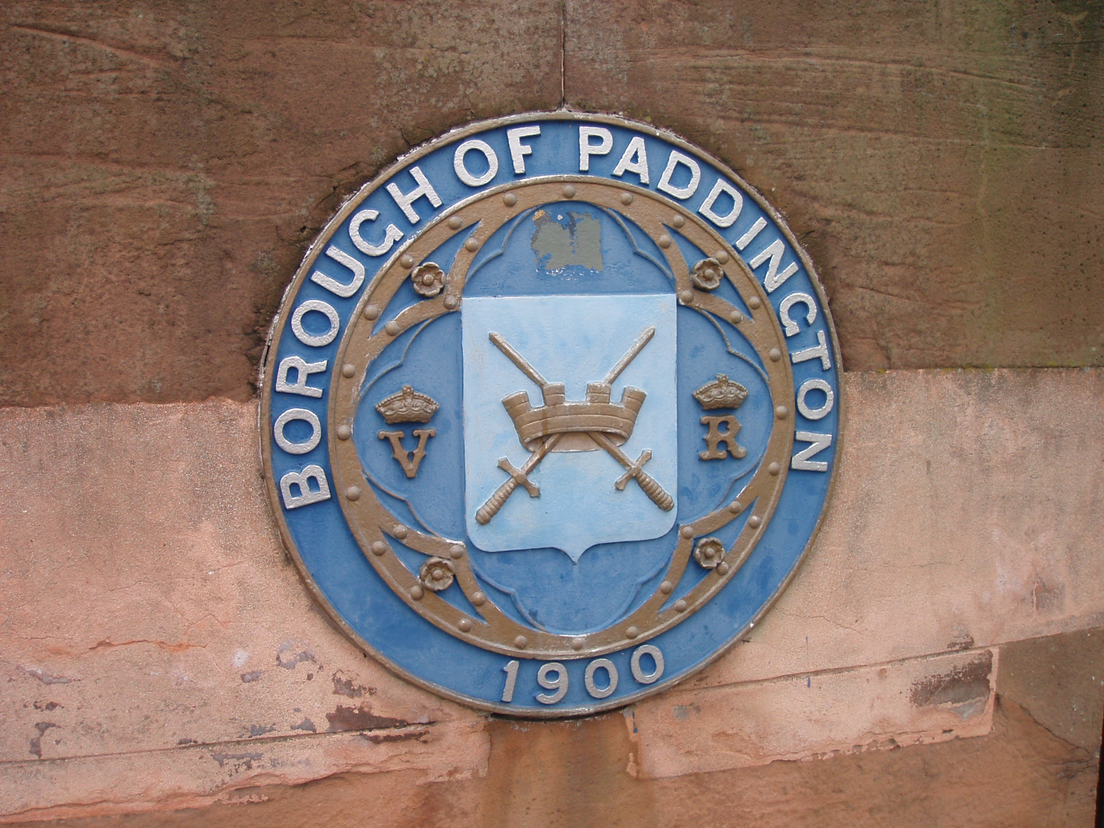 Bridge roundel showing the coat-of-arms of the Borough of Paddington in 1900. London, UK.